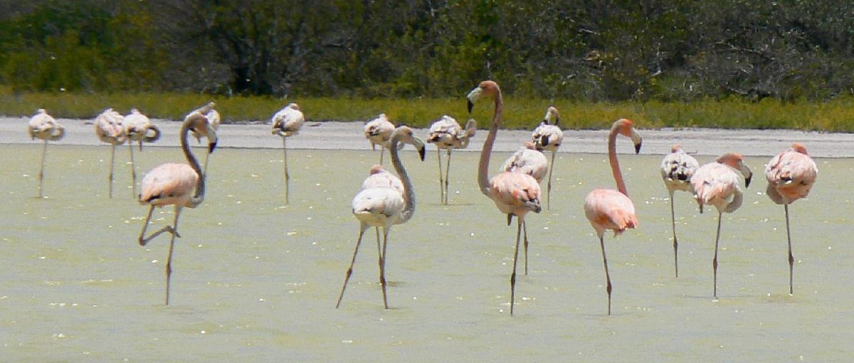 Caribbean Flamingos (Poenicopterus ruber ruber) along shore of Lago de Oviedo, Dominican Republic.